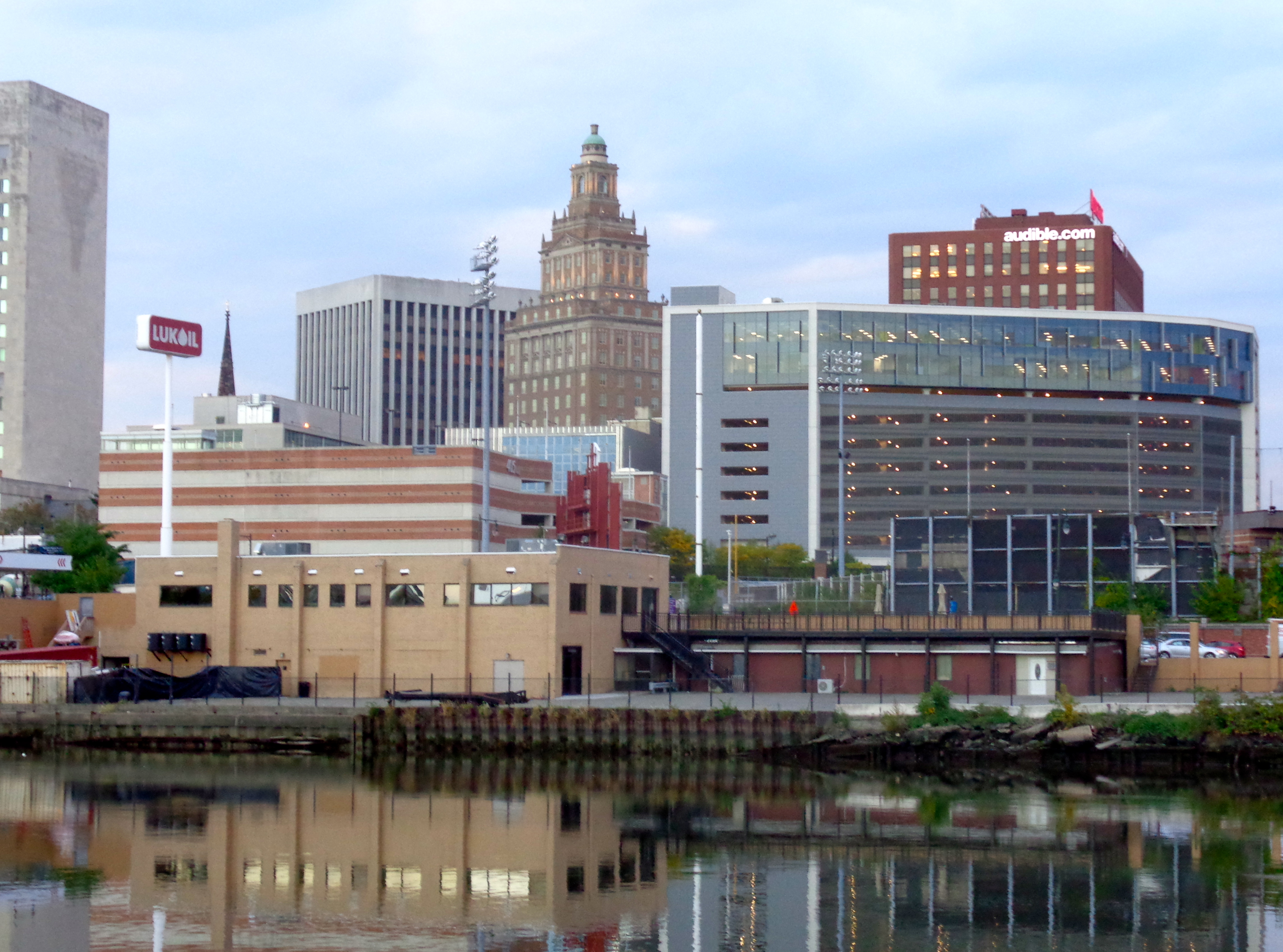 Newark skyline around Washington Park from Passaic River (LtoR) IDT, North Reformed Church, 30 Wash St, American Insurance, Cable vision, 1 Wash Park, Riverfront Stadium